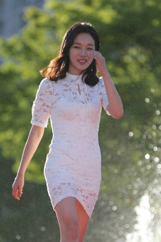 제19회 부천국제판타스틱영화제 개막식 레드카펫 part.1